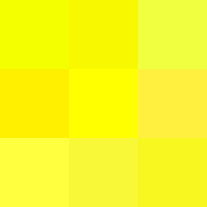 Shades of yellow